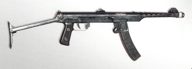 PPS-43 a Soviet 7.62 mm submachine gun